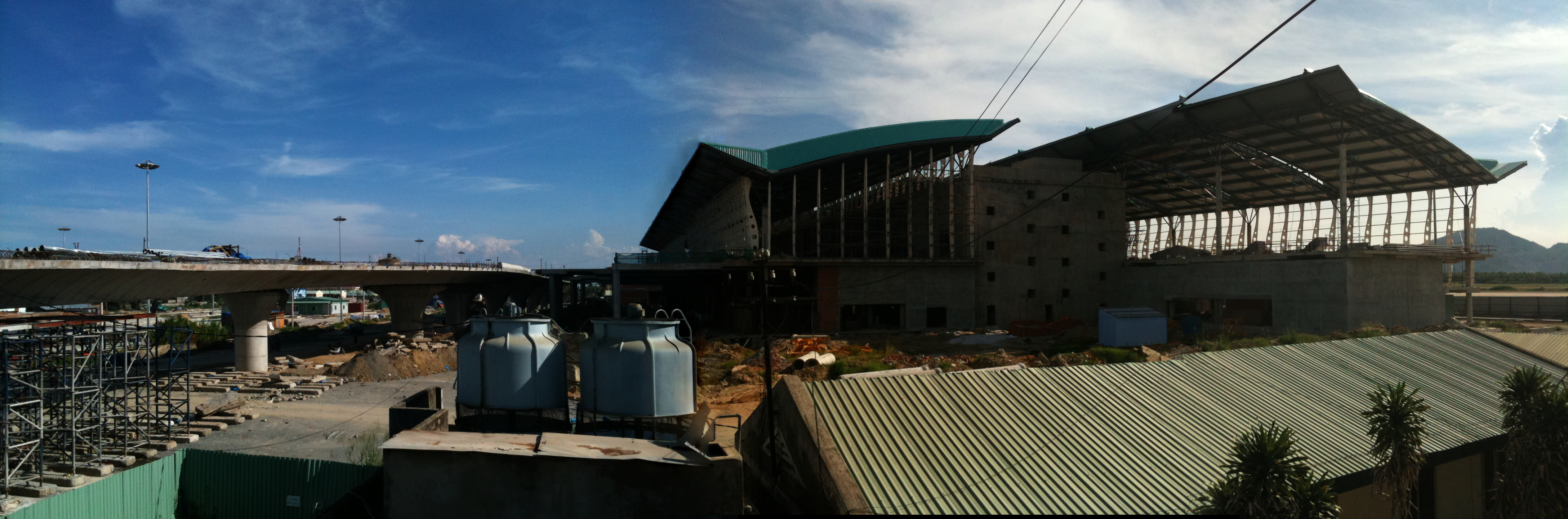 A panorama of the new international terminal of Da Nang International Airport (under construction), as seen from the existing terminal.